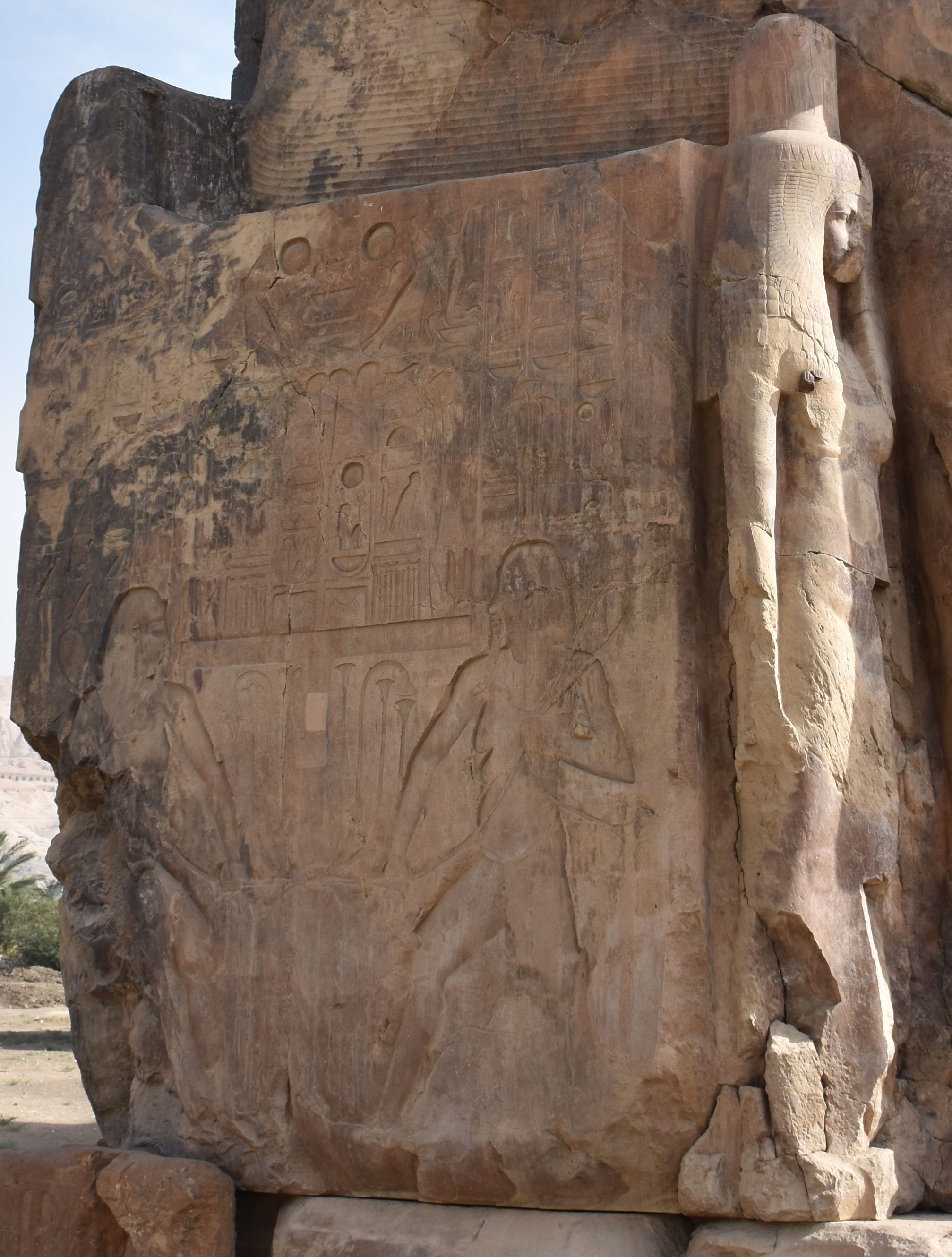 A side panel of one of the Colossi of Memnon in 2015 showing two flanked relief images of the deity Hapi and a sculpture of the royal wife Tiy